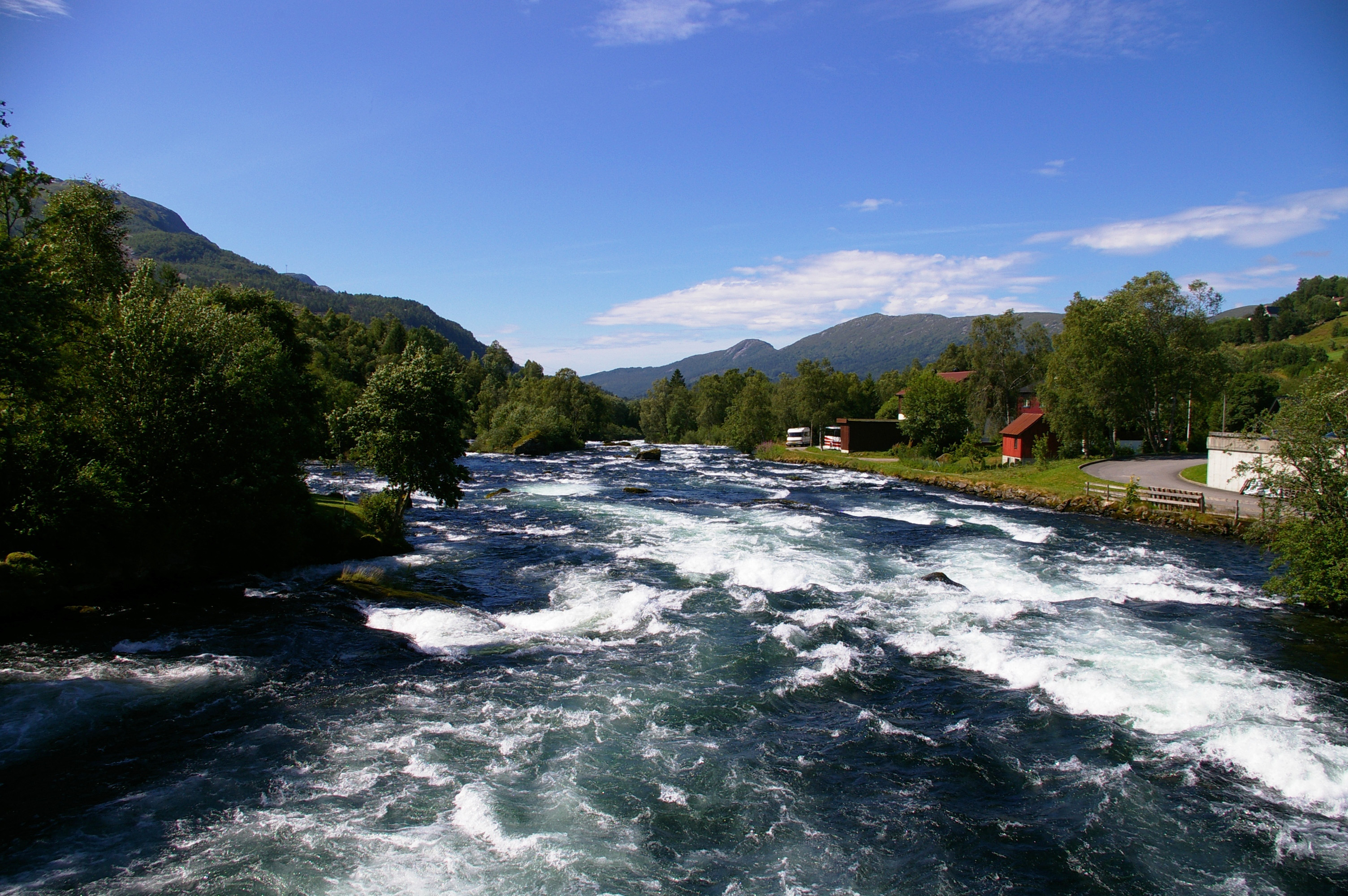 Jølstra River at Vassenden in Jølster, Sogn og Fjordane, Norway.